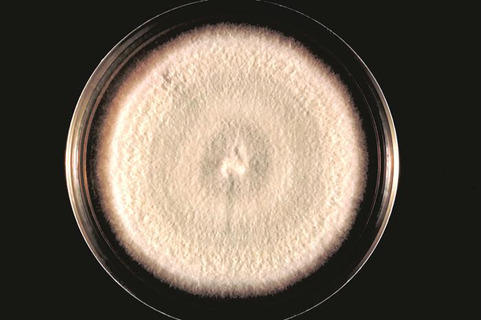 ID#: 4167 Description: This image depicts a plate culture with a colony of the fungus Acremonium falciforme. Members of genus Acremonium are filamentous fungi commonly isolated from plant debris and soil. Acremonium spp. are one of the causative agents of eumycotic “white grain” mycetoma. Content Providers(s): CDC Creation Date: 1970 Copyright Restrictions: None - This image is in the public domain and thus free of any copyright restrictions. As a matter of courtesy we request that the content provider be credited and notified in any public or private usage of this image.